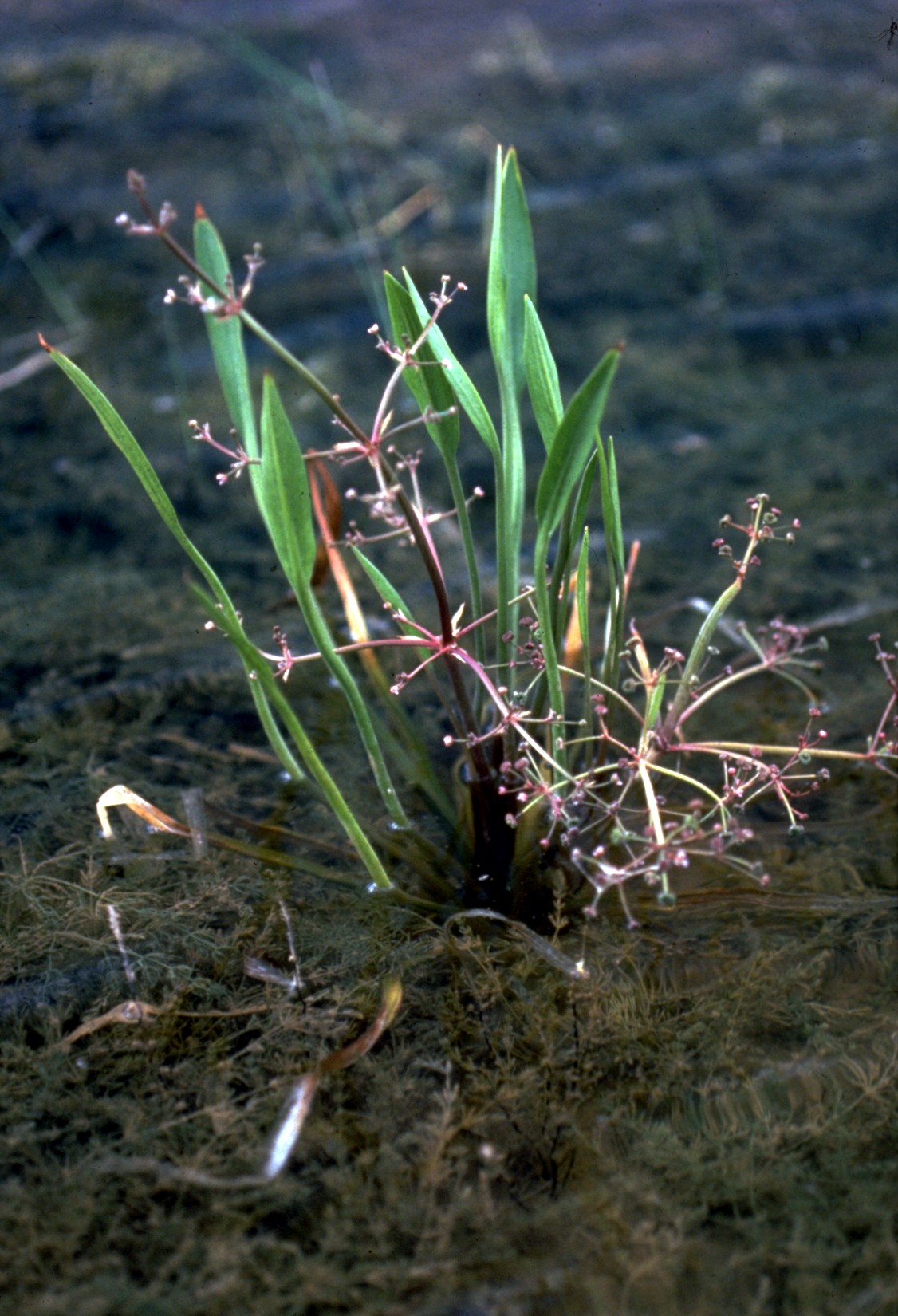 Narrowleaf Water Plantain. Plant.